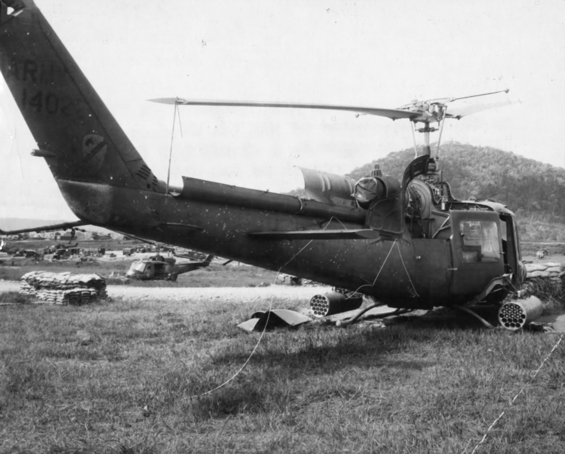 A UH-1B Helicopter of the 1st Cavalry Division (Airmobile) damaged by a direct hit during the Viet Cong mortar attack on the Golf Course Airfield, Camp Radcliff.